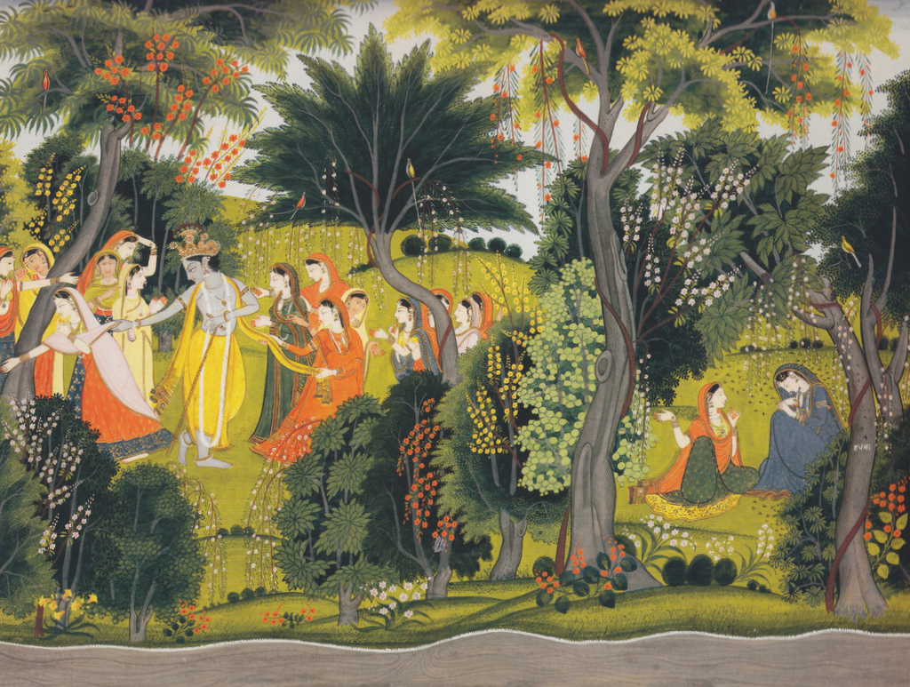 Krishna flirting with the Gopis, to Radhas sorrow - Kangra Painting [ Himalayan ] 1760